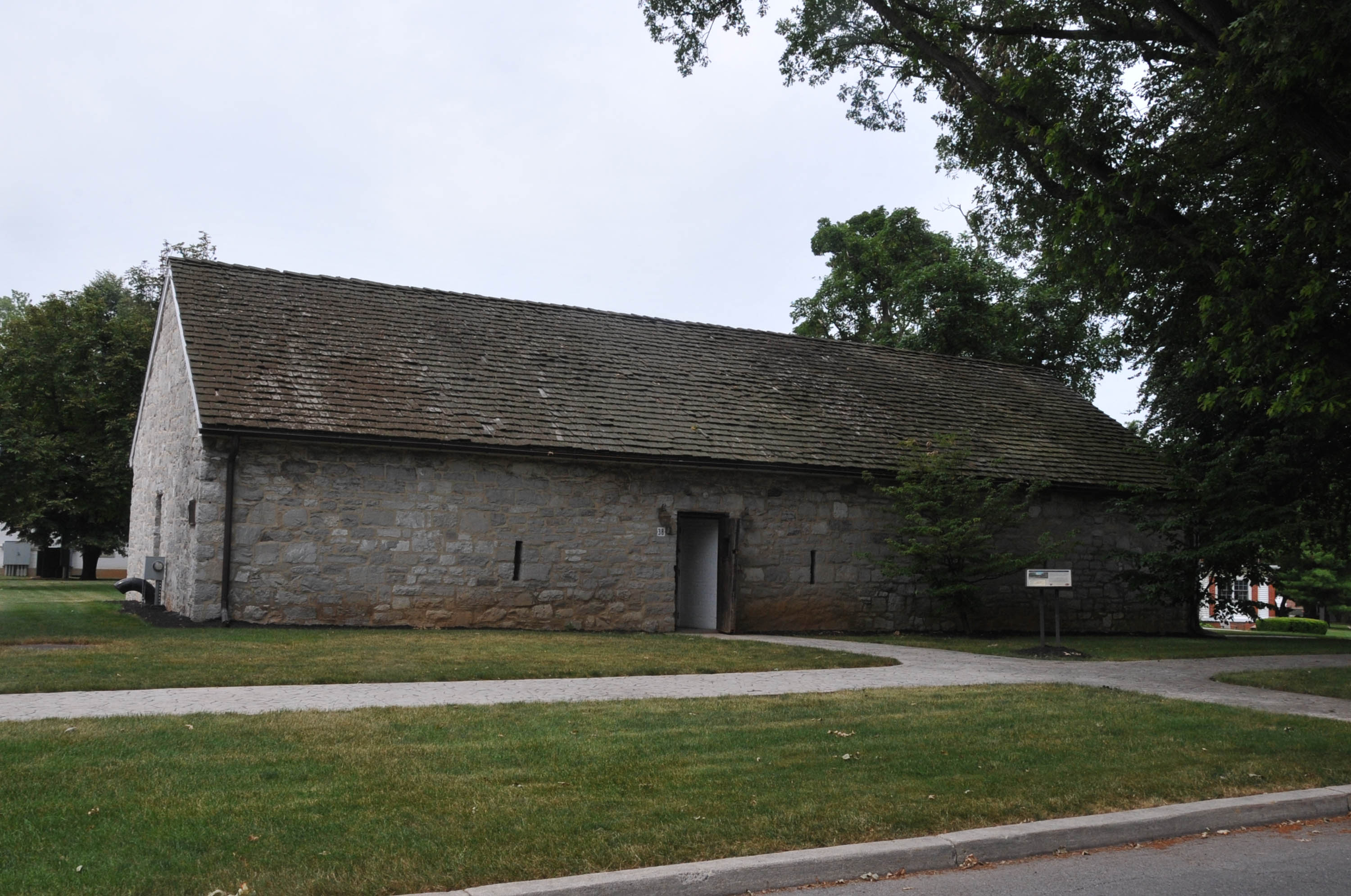 CONSTRUCTED IN 1777 IT HAS SERVED TO STORE POWDER, BECAME A GUARD HOUSE DURING CAVALRY DAYS, A DETENTION CENTER FOR THE INDIAN SCHOOL ERA AND A CONFINEMENT CENTER DURING THE HOSPITAL DAYS